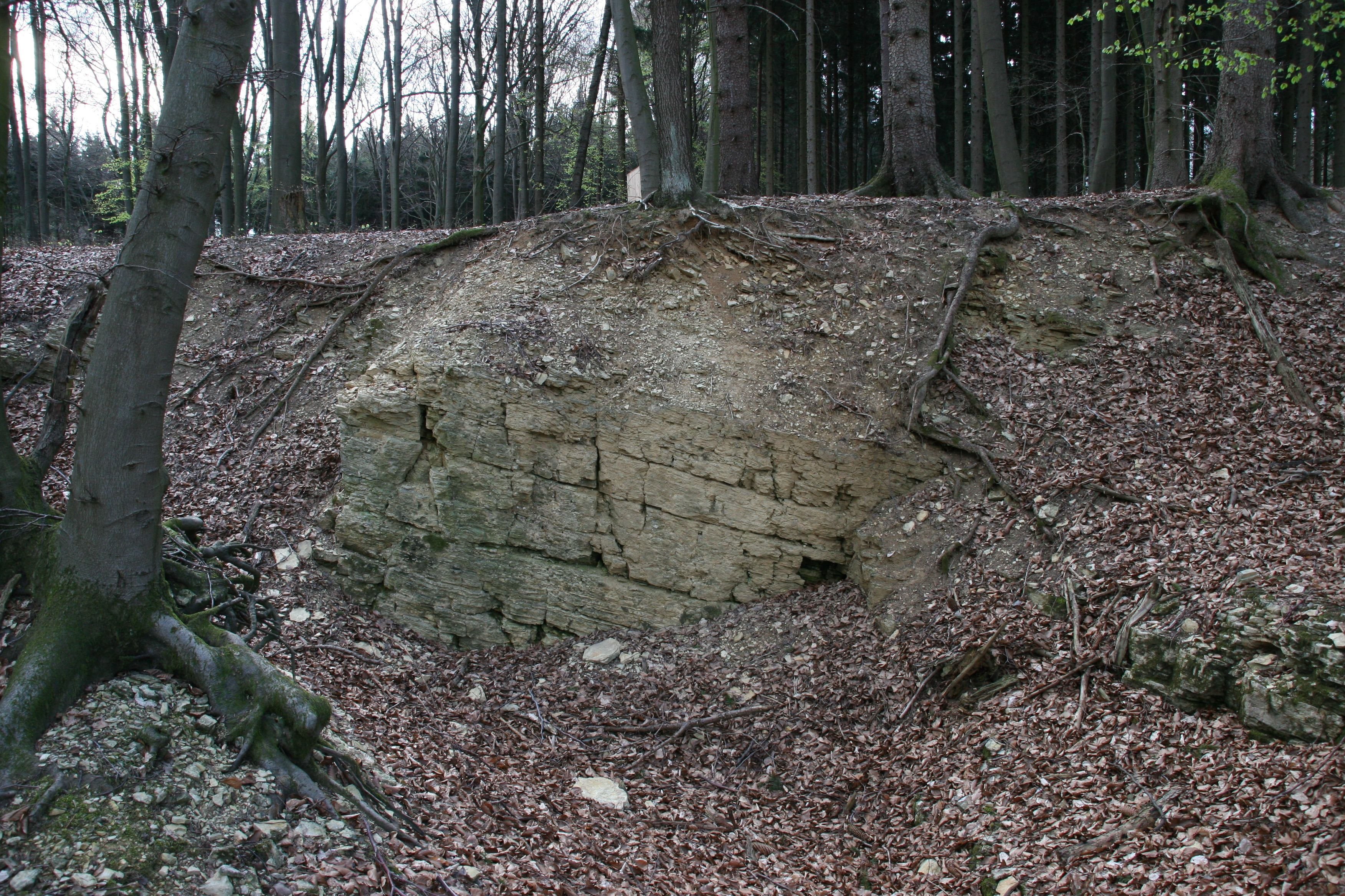 Ostercappeln: stone layers in the Osnabrück highlands